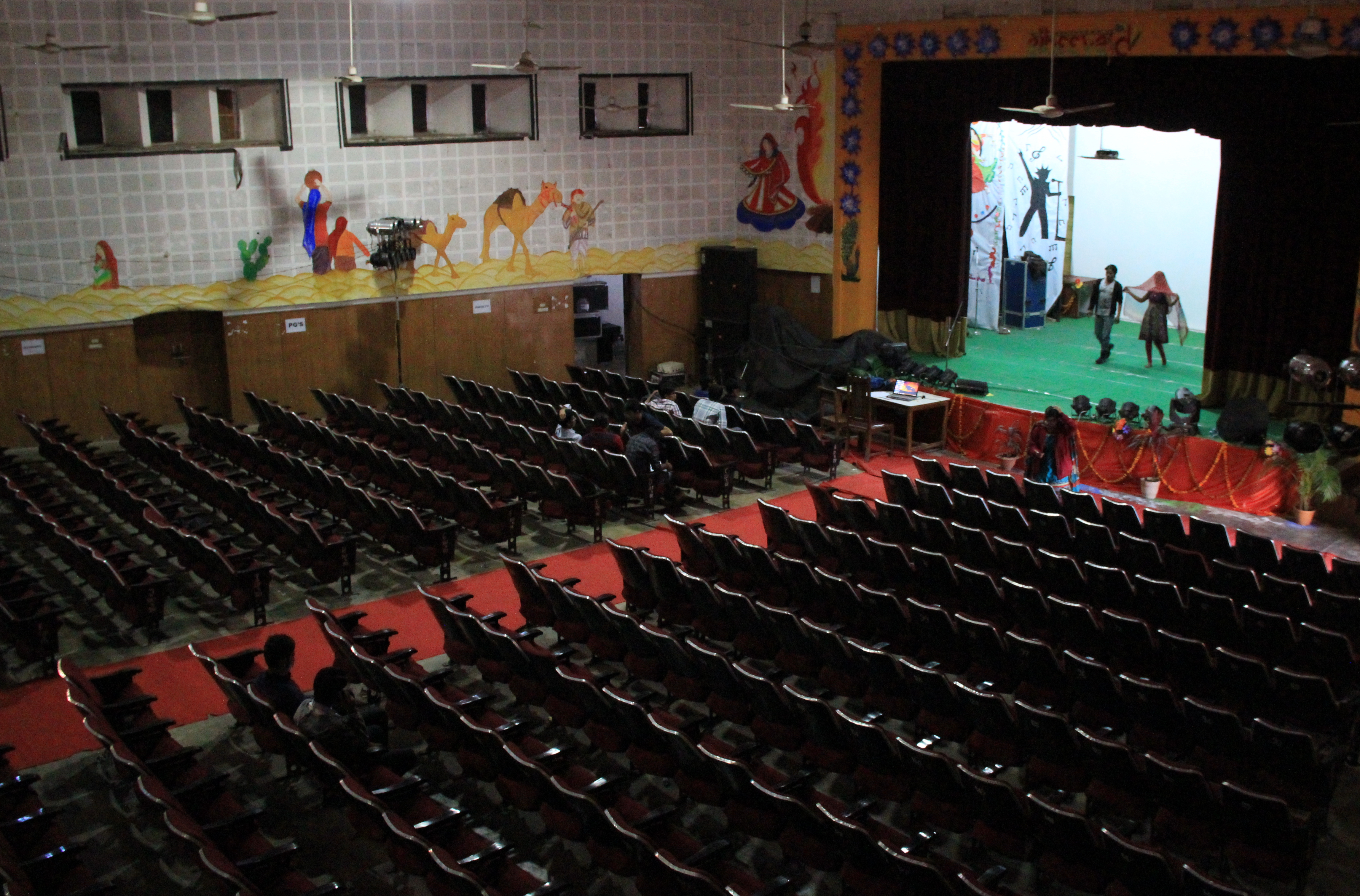 Gandhi Medical College, Bhopal Central Auditorium